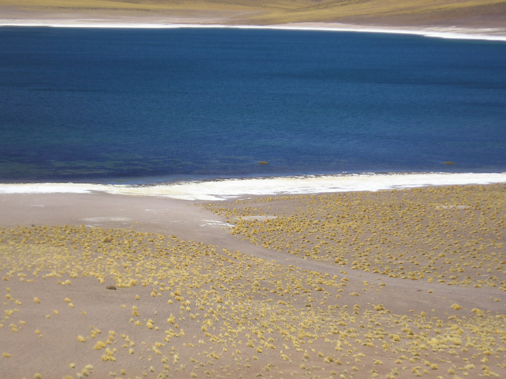 Wári (Fulica cornuta) nests in the Laguna Miñiques (near the shore), close to Laguna Miscanti at Chilean Altiplano